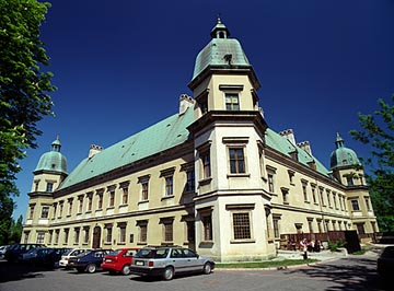 Ujazdów Castle in Warsaw.